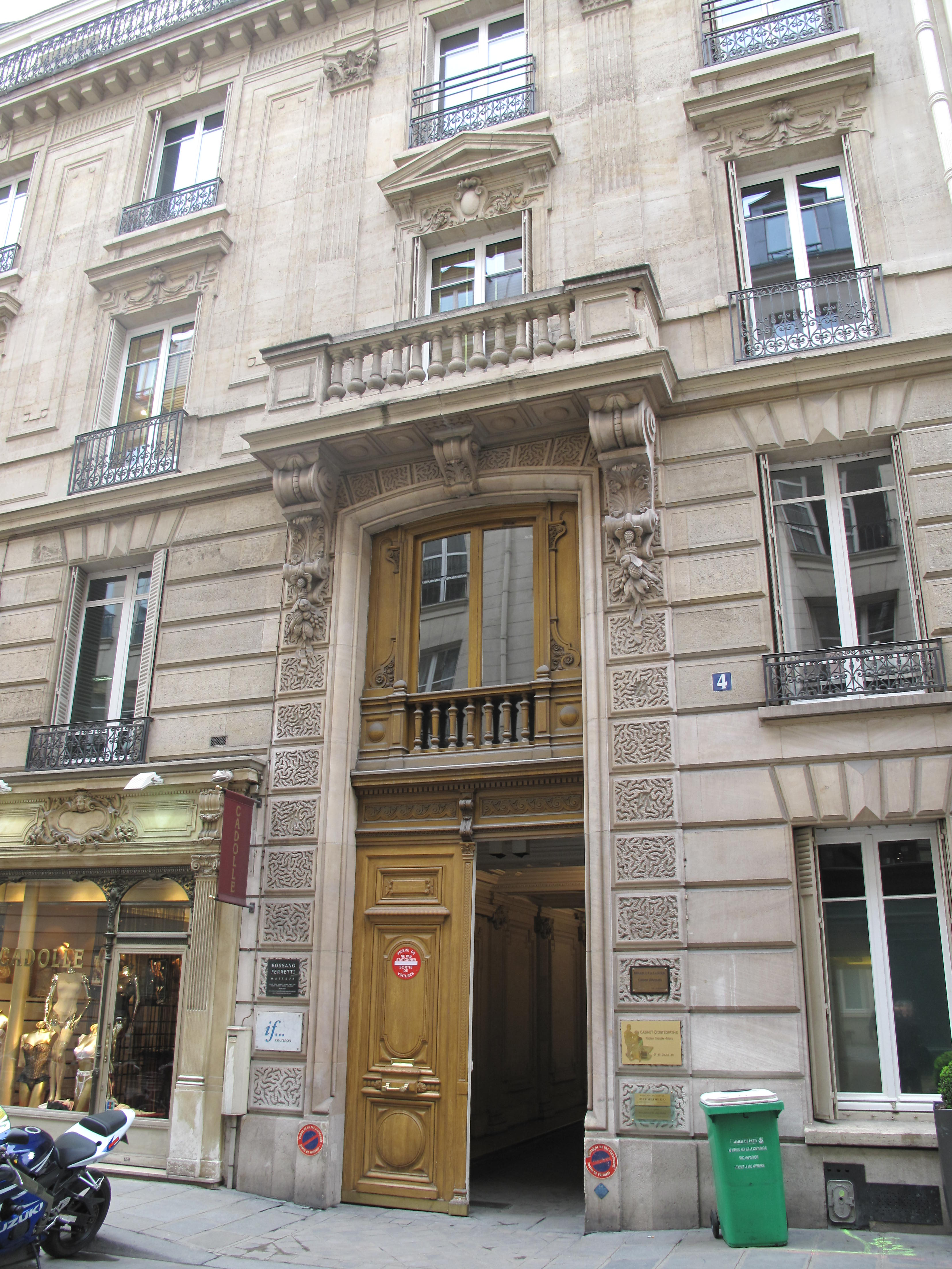 Building of 4 rue Cambon, Paris 1st arrond., France - Former head office of Minerve